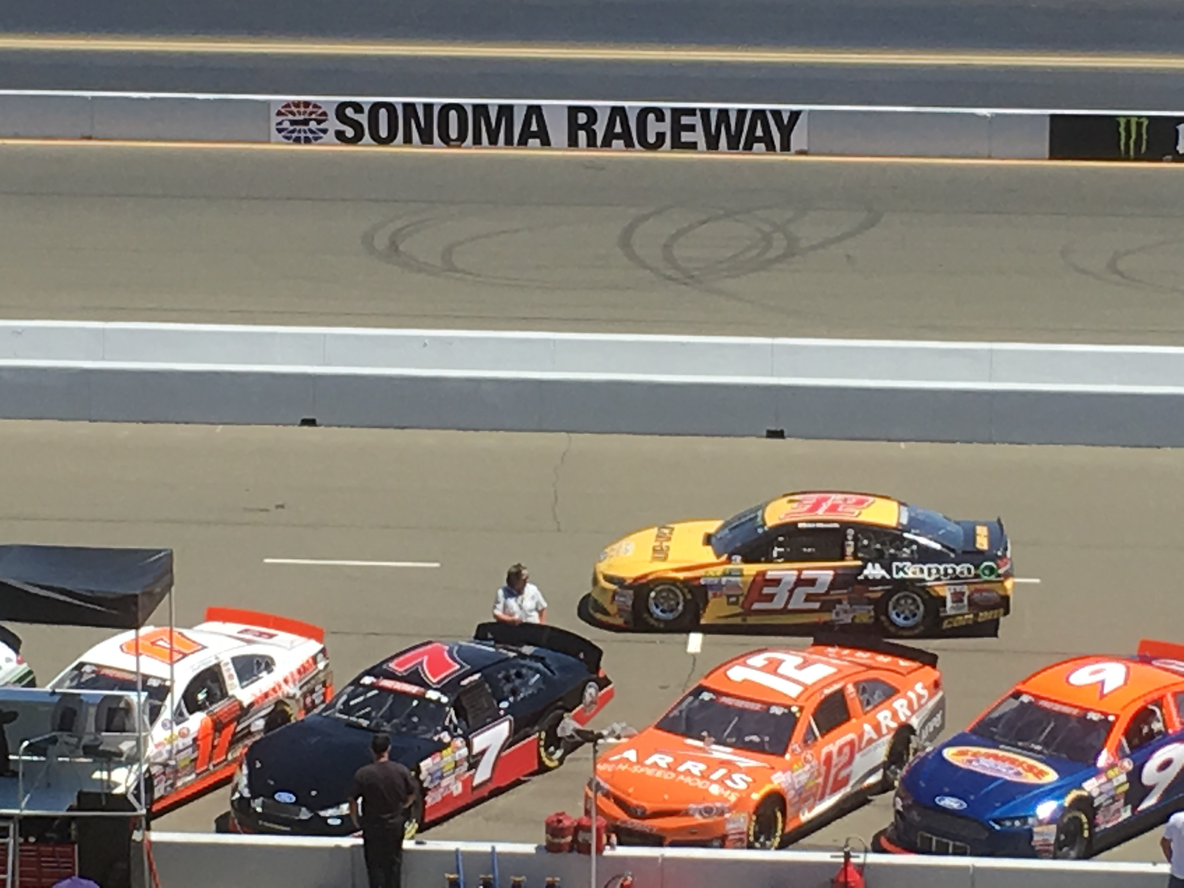 Matt DiBenedetto during qualifying for the 2017 Toyota/Save Mart 350.